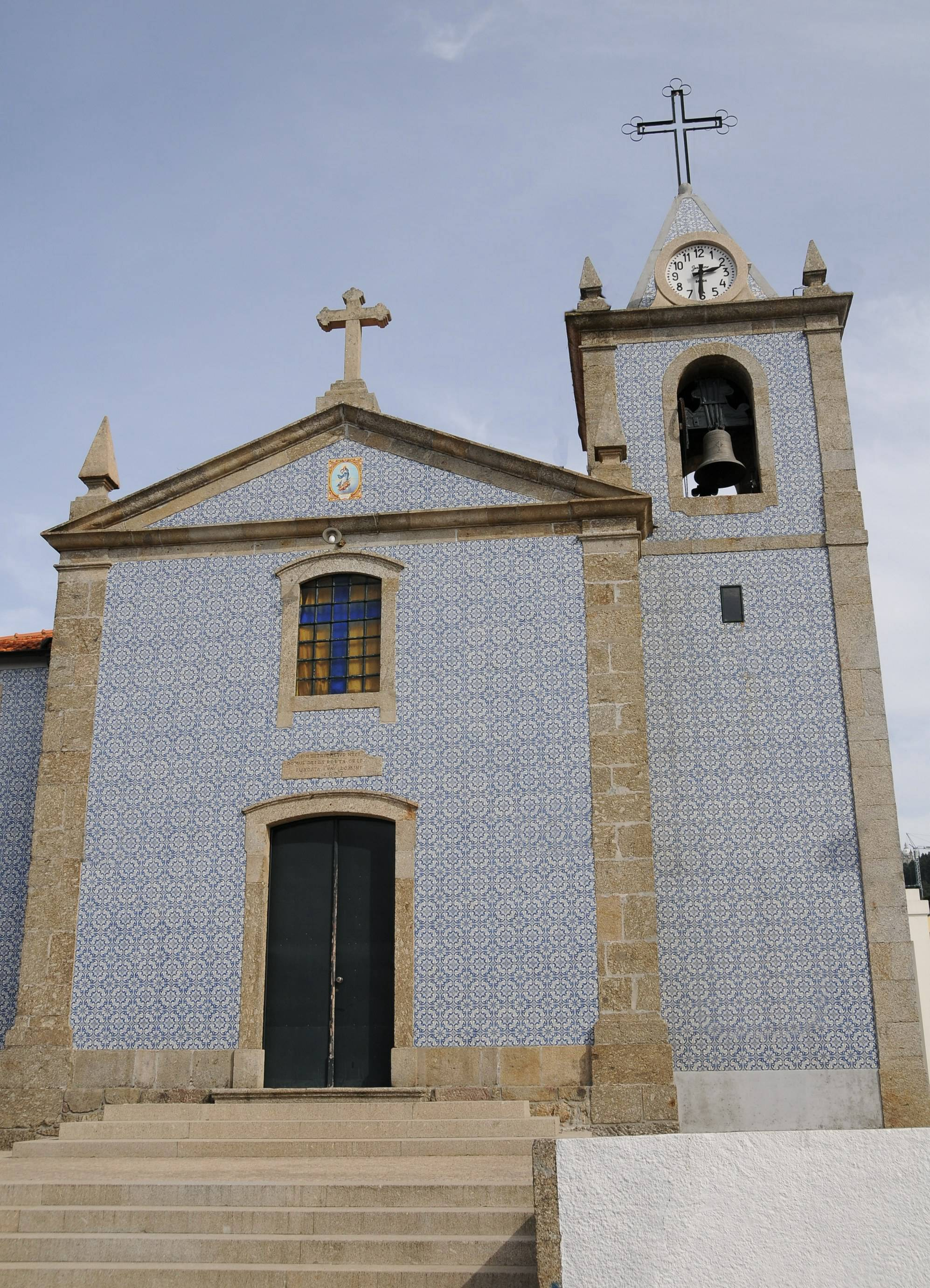 Lamacaes Church, in Braga, Portugal